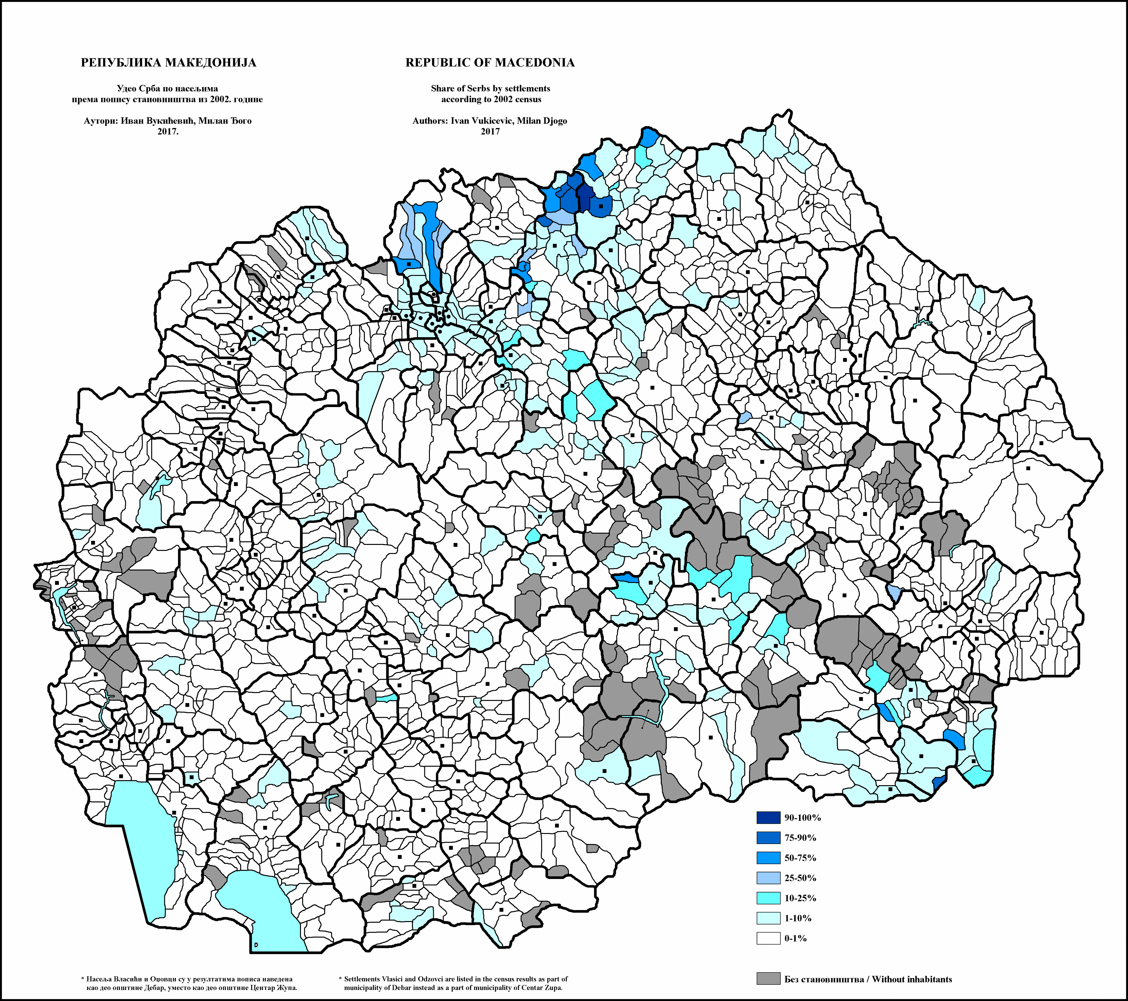 Share of Serbs in Macedonia by settlements 2002. Authors: Ivan Vukicevic - , Milan Djogo